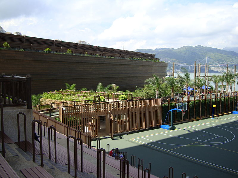 Side View of Noah's Ark, Hong Kong, (Transferred this image from Tamil Wikipedia)